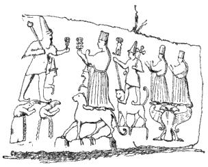 Source: Mitchell, Wright. A History of Ancient Sculpture. Dodd & Mead, 1883.